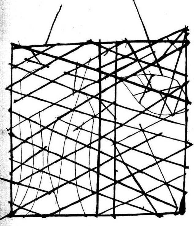 Polynesian navigation device showing directions of winds, waves and islands.